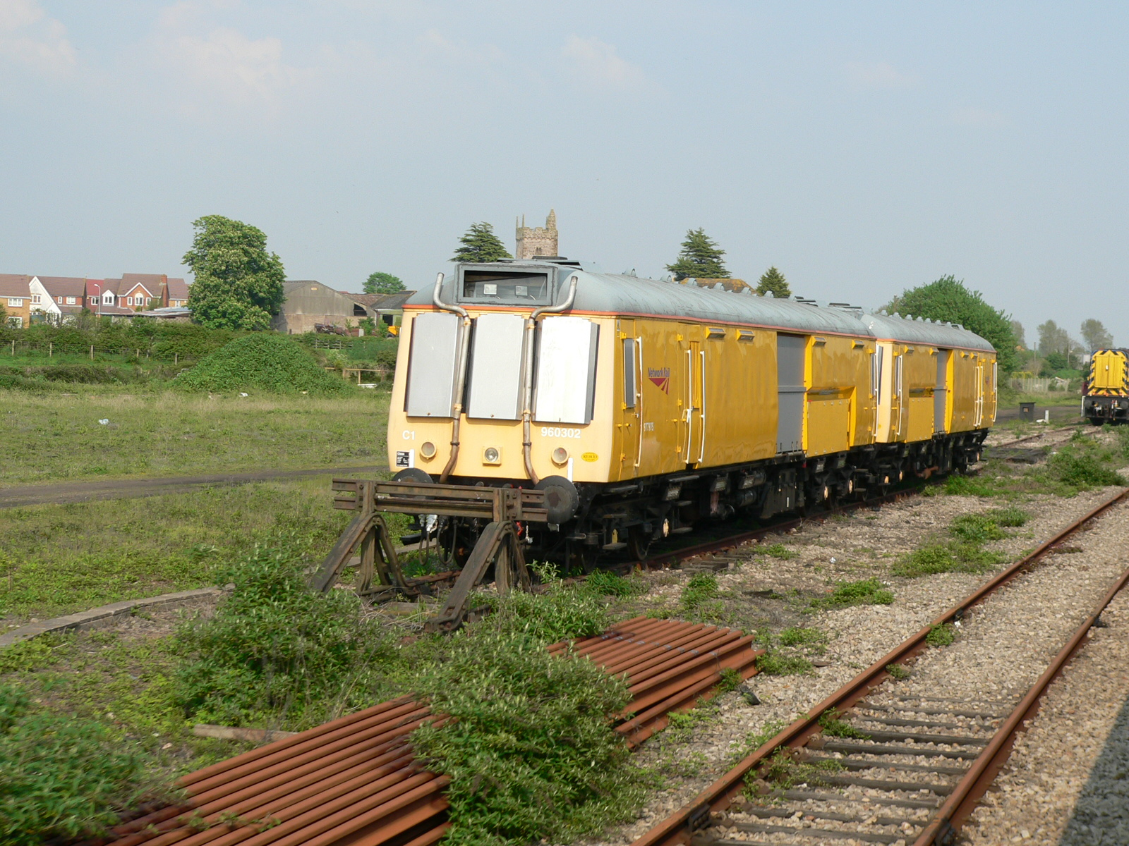 Network Rail Class 960 (ex-Class 121) DMU 960302 is the Severn Tunnel emergency train. It is seen here stabled west of Severn Tunnel Junction railway station, with sturdy metal coverings over the windows in what is presumably an anti-vandalism measure. Just visible on the extreme right of the photo is the nose of a Class 08 shunter. This photograph was taken from the window of a passing First Great Western HST.